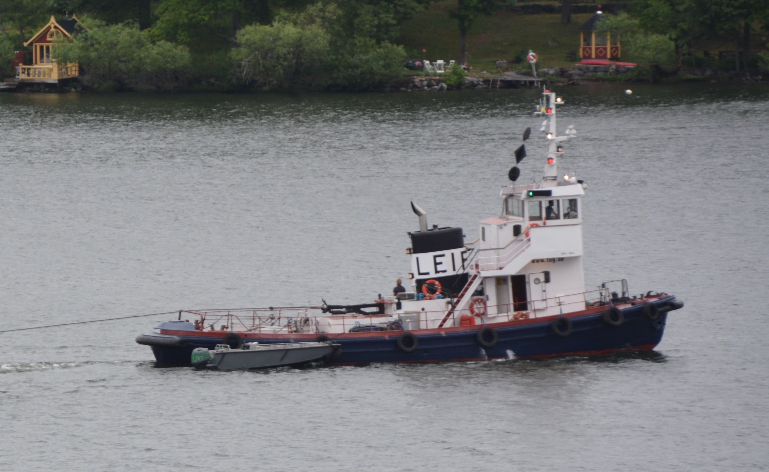 Tugboat Leif, Stockholm